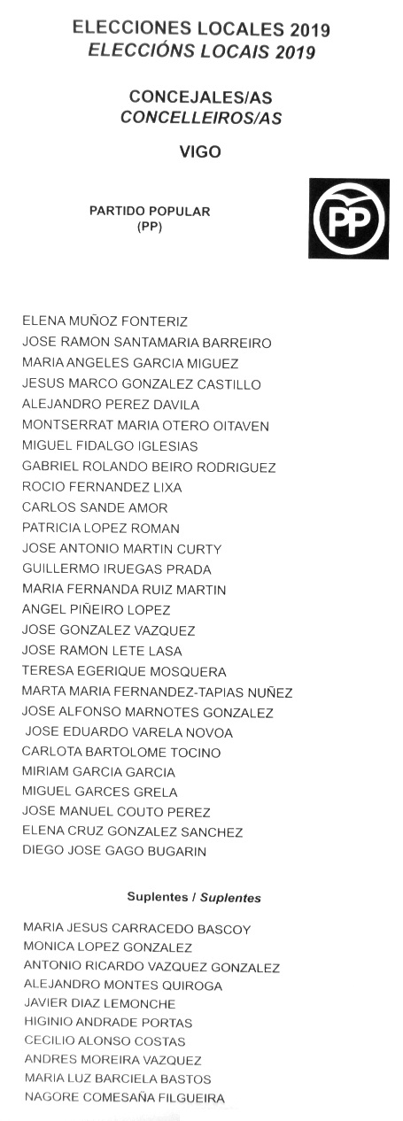 See title.